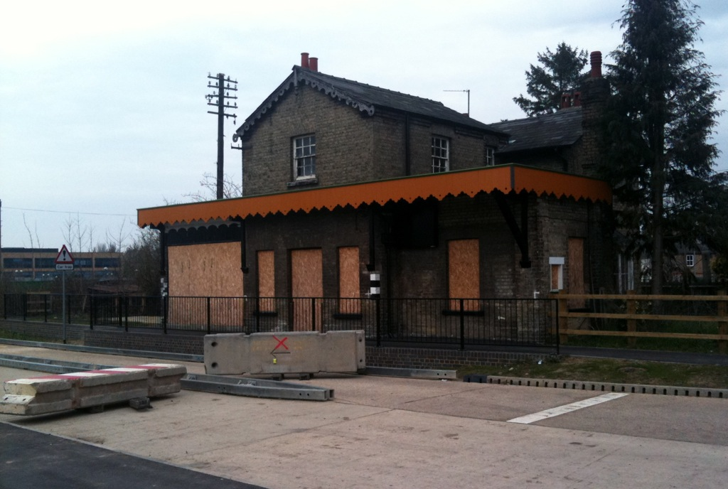 Disused station building at site of Histon railway station, Cambridgeshire. Cambridgeshire Guided Busway visible in foreground.